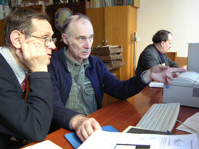 На кафедре теоретической механики и мехатроники (2004 г)